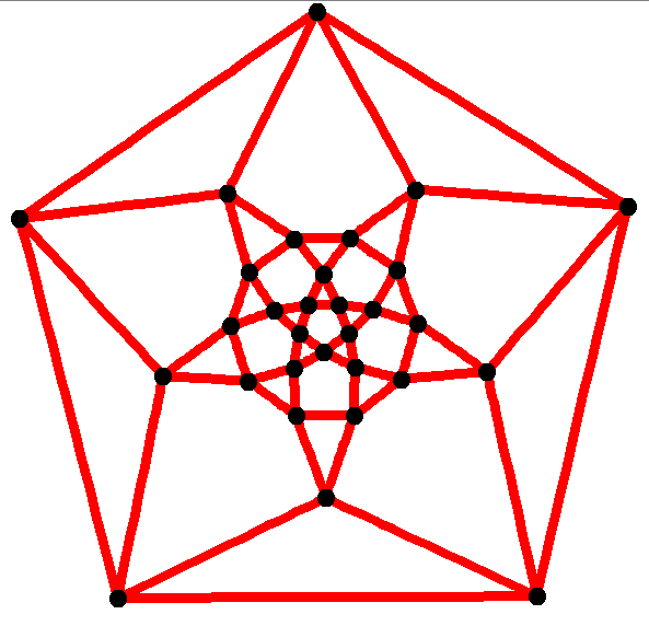 Schlegel diagram